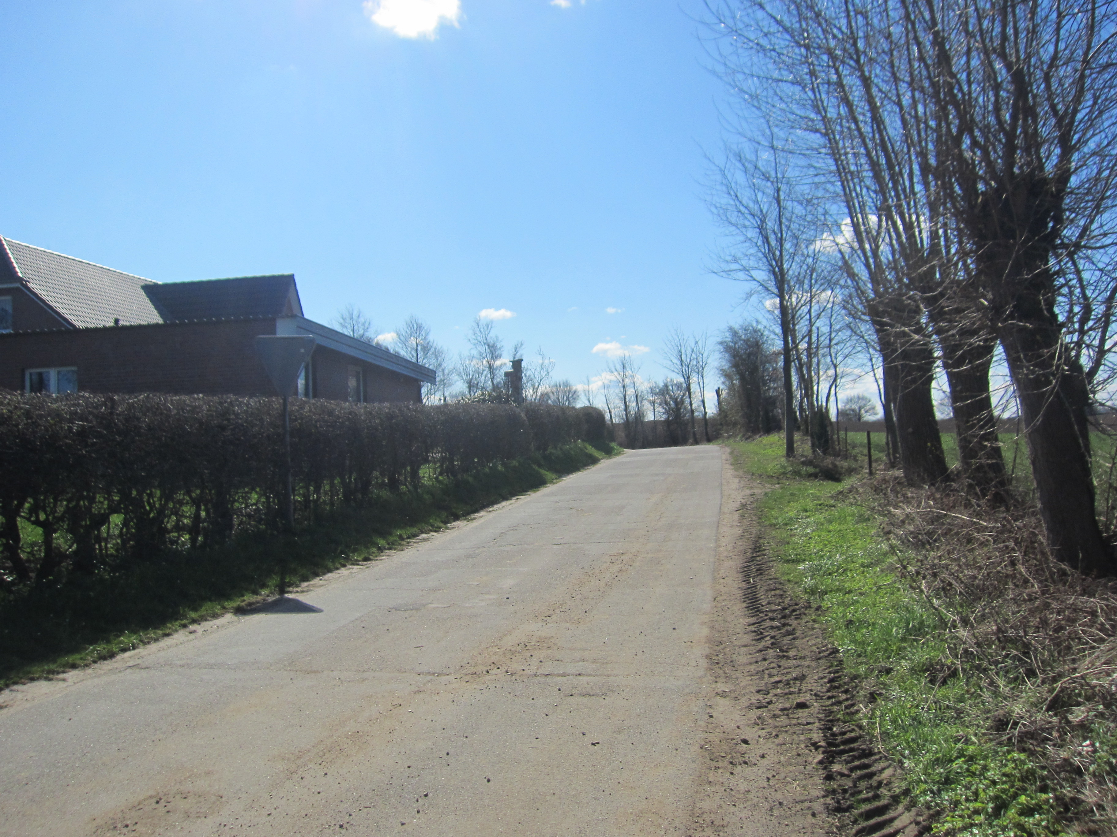 Street "Schönhorster Weg" in Boksee